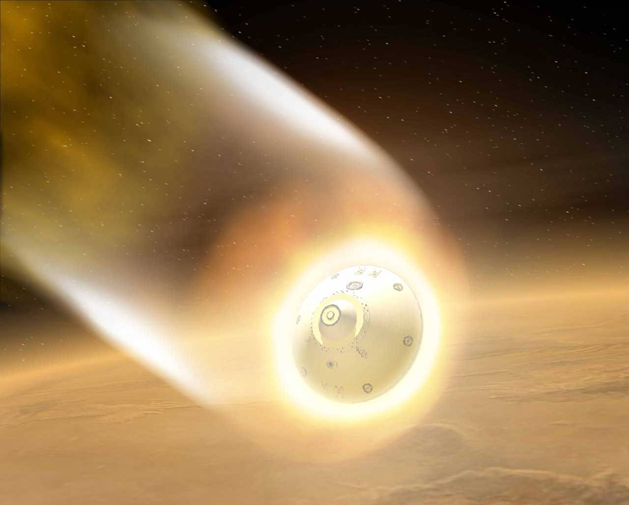 atmosperic entry of Mars Exploration Rover (MER) aeroshell, artistic rendition